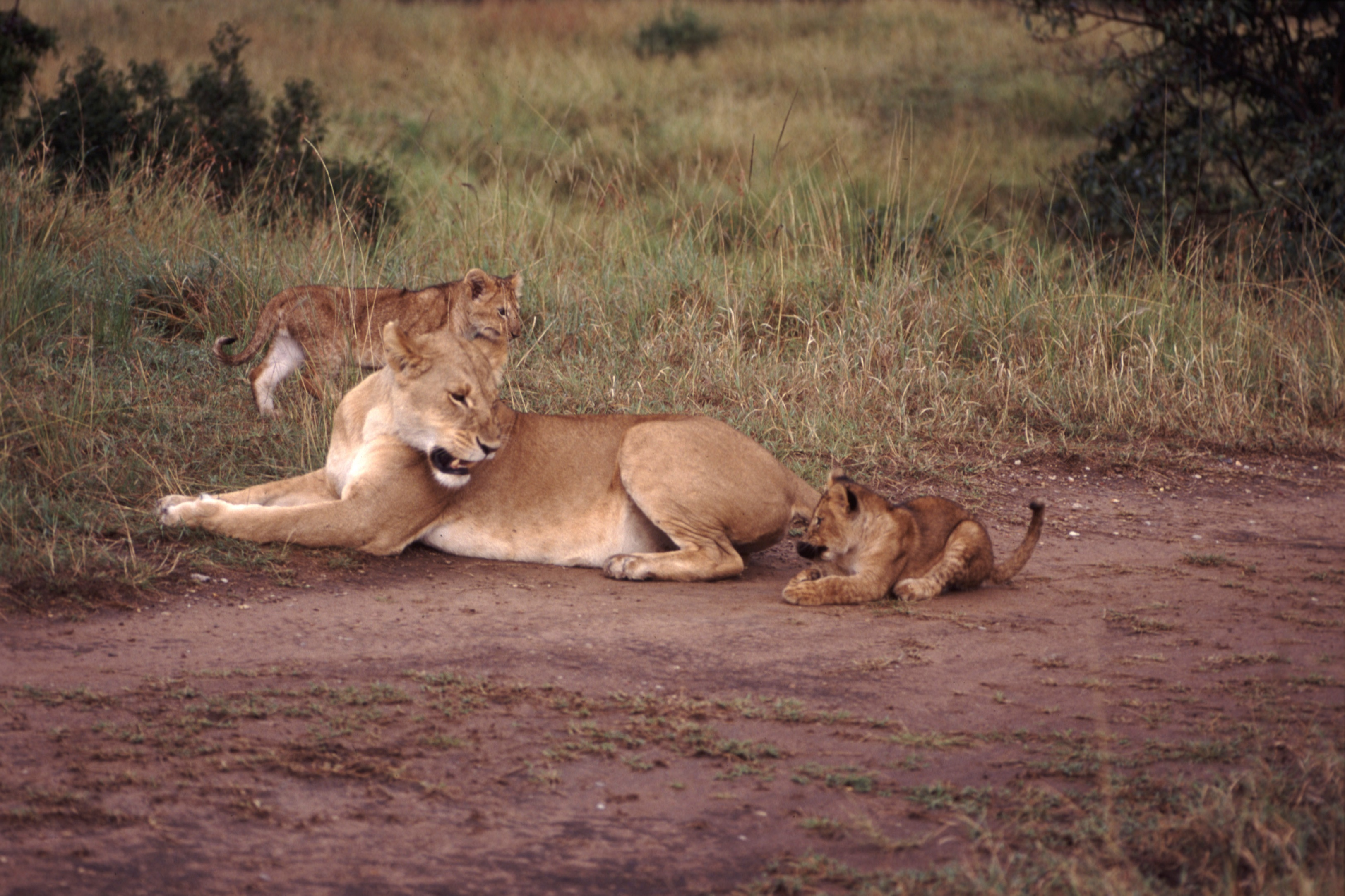 Lioness warns cub who is playing with her tail. Taken on safari in Kenya on slide film.